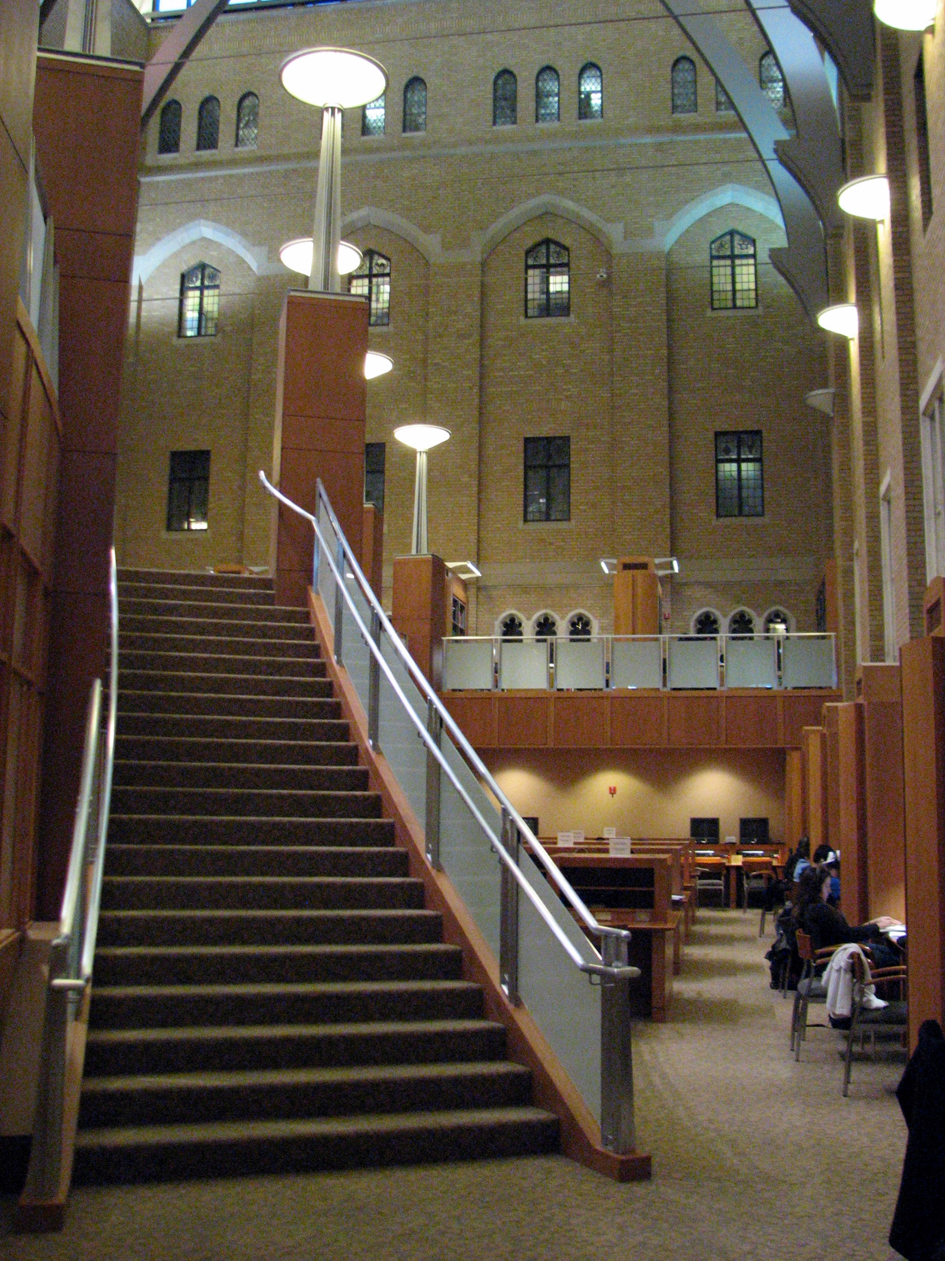 The Irving S. Gilmore Library with Yale University's Sterling Memorial Library